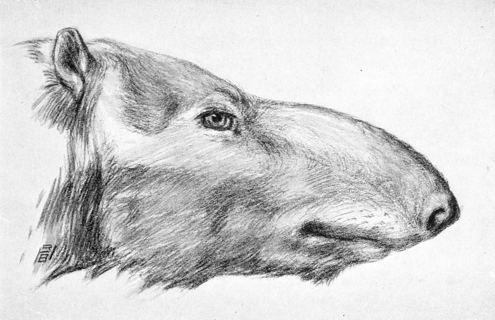 Life restoration of Merycochoerus proprius from W.B. Scott's "A History of Land Mammals in the Western Hemisphere." New York: The Macmillan Company.